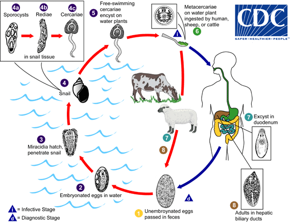 Causal Agents: The trematodes Fasciola hepatica (the sheep liver fluke) and Fasciola gigantica, parasites of herbivores that can infect humans accidentally. Life Cycle: Life cycle of Fasciola hepatica Immature eggs are discharged in the biliary ducts and in the stool . Eggs become embryonated in water , eggs release miracidia , which invade a suitable snail intermediate host , including many species of the genus Lymnae. In the snail the parasites undergo several developmental stages (sporocysts , rediae , and cercariae ). The cercariae are released from the snail and encyst as metacercariae on aquatic vegetation or other surfaces. Mammals acquire the infection by eating vegetation containing metacercariae. Humans can become infected by ingesting metacercariae-containing freshwater plants, especially watercress . After ingestion, the metacercariae excyst in the duodenum and migrate through the intestinal wall, the peritoneal cavity, and the liver parenchyma into the biliary ducts, where they develop into adults . In humans, maturation from metacercariae into adult flukes takes approximately 3 to 4 months. The adult flukes (Fasciola hepatica: up to 30 mm by 13 mm; F. gigantica: up to 75 mm) reside in the large biliary ducts of the mammalian host. Fasciola hepatica infect various animal species, mostly herbivores. Geographic Distribution: Fascioliasis occurs worldwide. Human infections with F. hepatica are found in areas where sheep and cattle are raised, and where humans consume raw watercress, including Europe, the Middle East, and Asia. Infections with F. gigantica have been reported, more rarely, in Asia, Africa, and Hawaii.